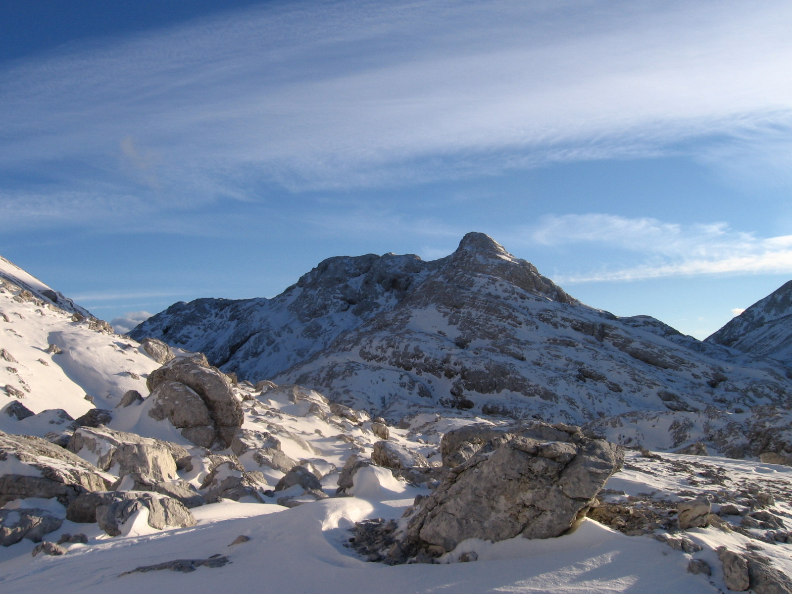 Mt. Zadnji Vogel (2,327 m) above Vrata sattle. Slovenia.